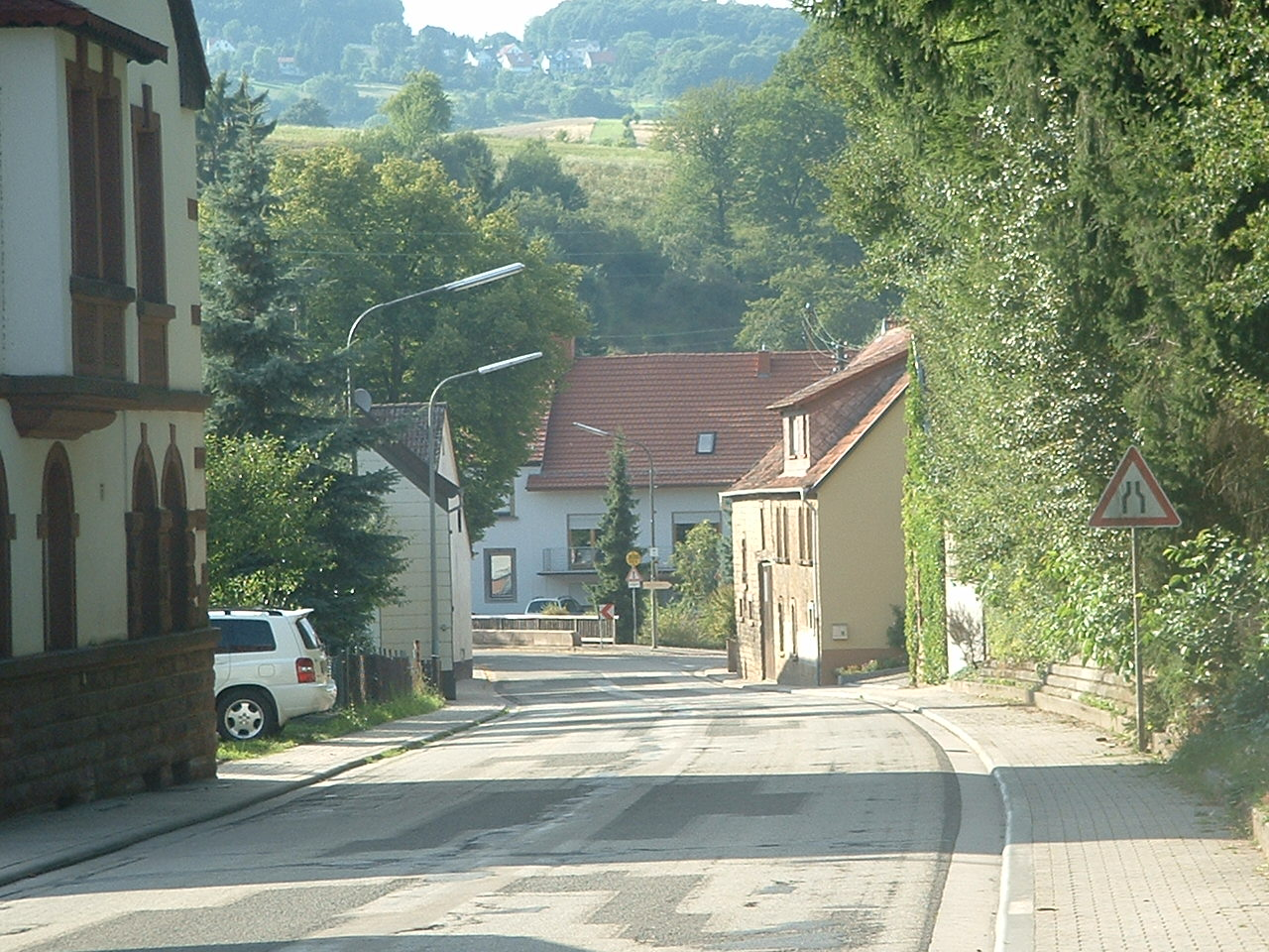 Oberstaufenbach, main street